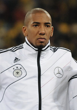 German football player Jérôme Boateng before match against Ukraine